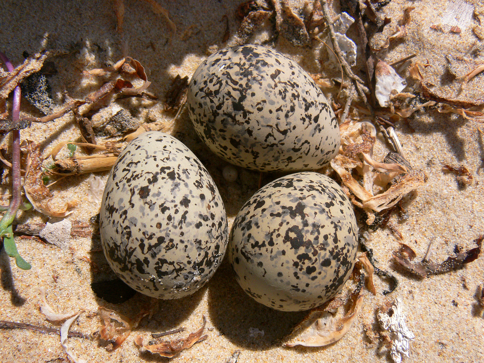 Three eggs of the Hooded Plover, Thinornis rubricollis. Taken in South-eastern Australia.